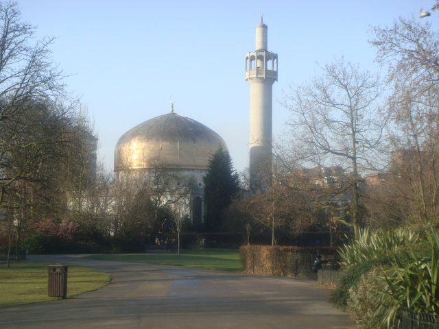 Central London Mosque A view of the central London mosque seen from Regent's Park